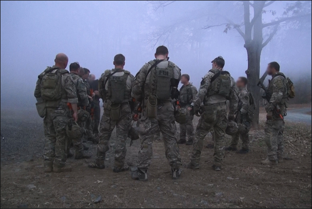 "HRT operators review actions following an urban assault training exercise near the Hostage Rescue Team’s headquarters in Quantico, Virginia."